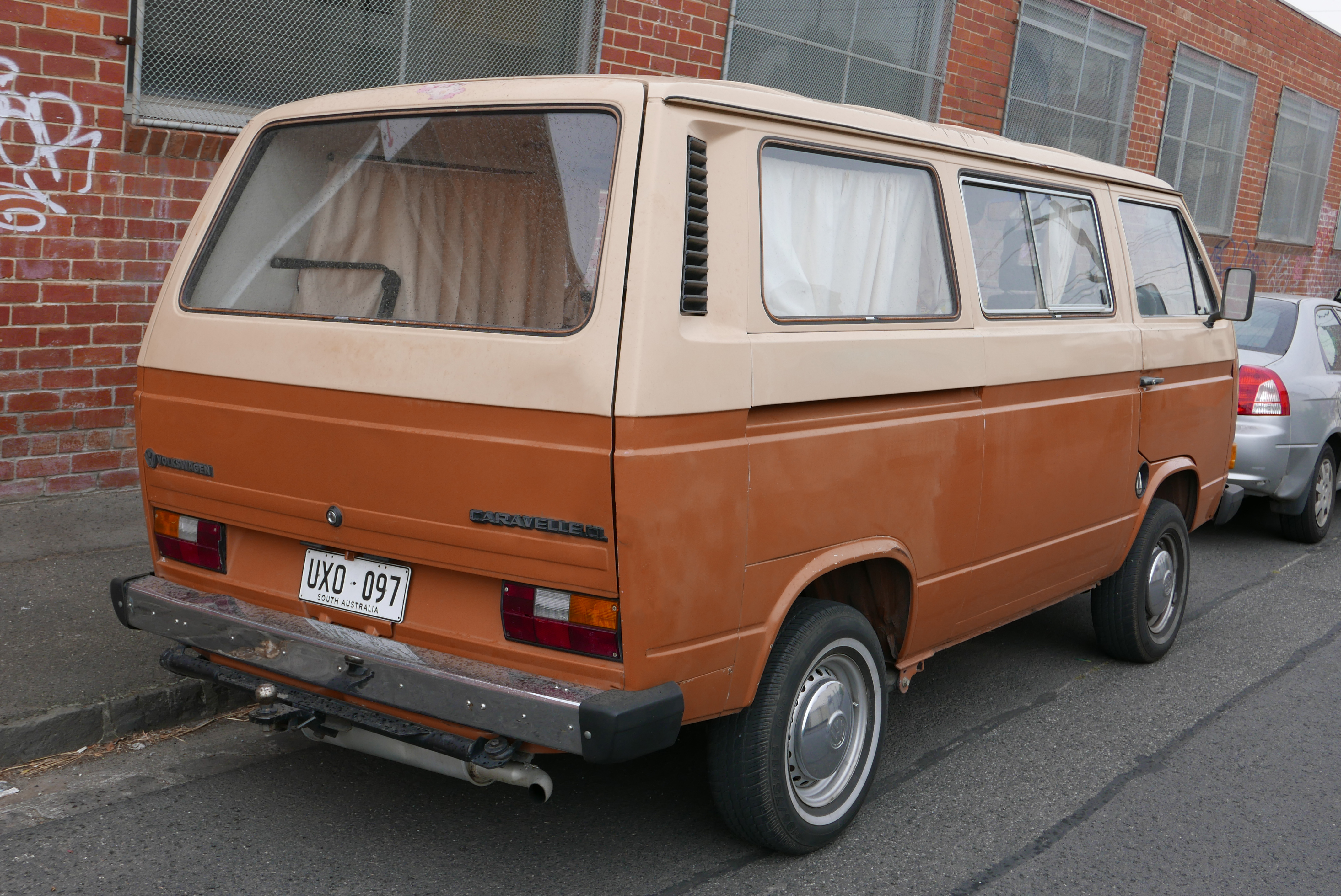 1984–1986 Volkswagen Caravelle (253) CL van. Photographed in Brunswick, Victoria, Australia.